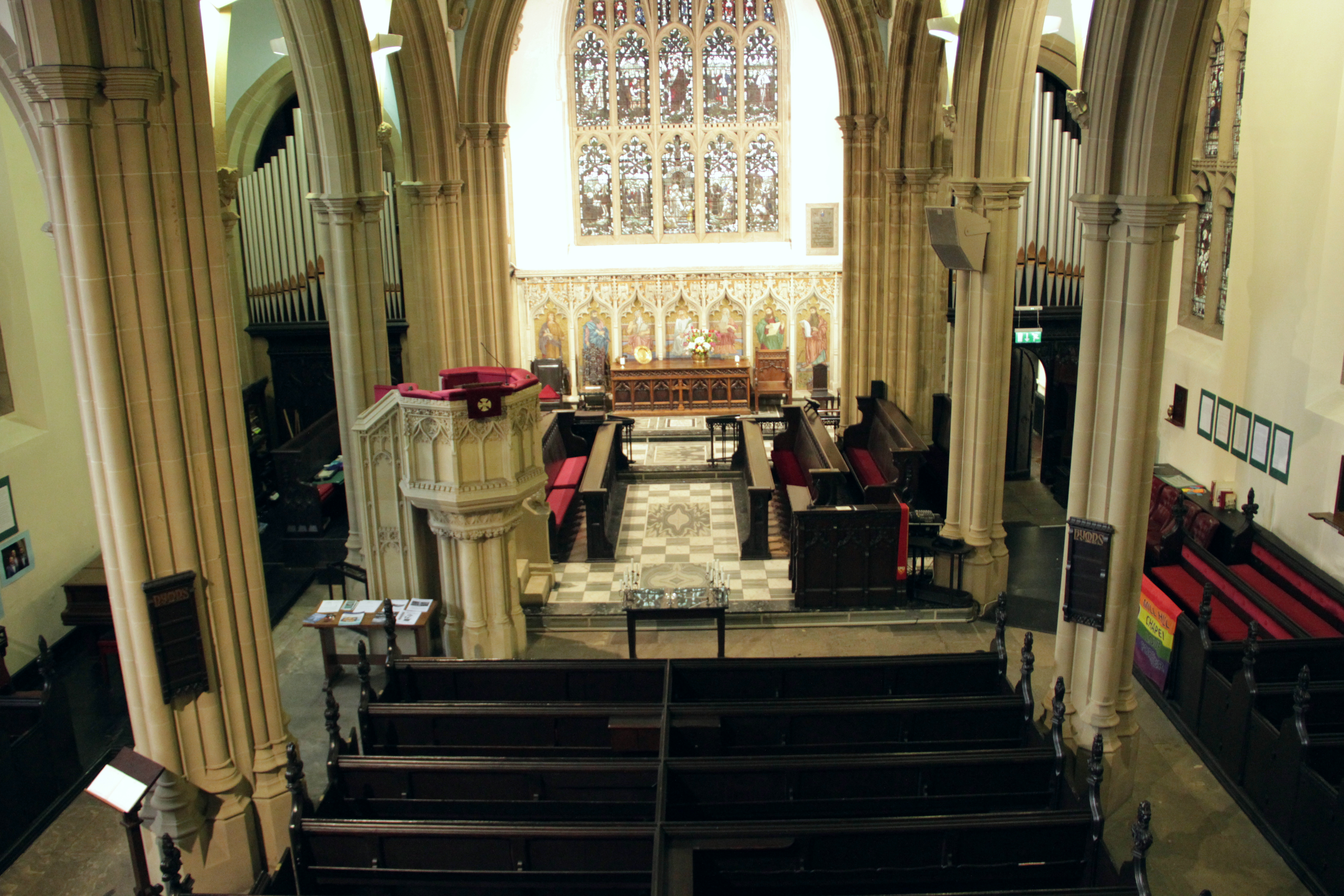 interior of Mill Hill Unitarian Chapel, City Square, Leeds, West Yorkshire, England. Architects Bowman & Crowther of Manchester, opened 1848. All original architectural stone carving is by Robert Mawer. Looking north to the chancel from the gallery.